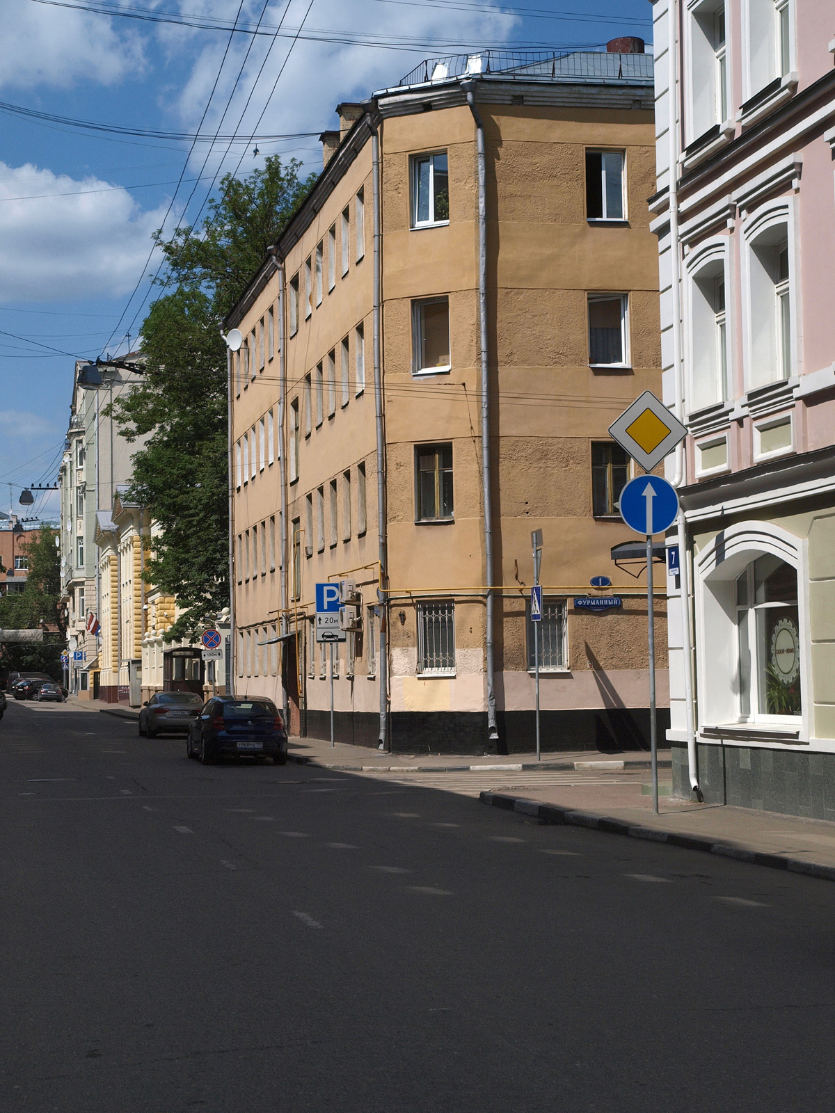 Chaplygina St., corner of Furmamny Lane, Moscow.